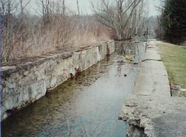 Lock 26, Ohio & Erie Canal in Cuyahoga Valley National Park, Ohio, USA